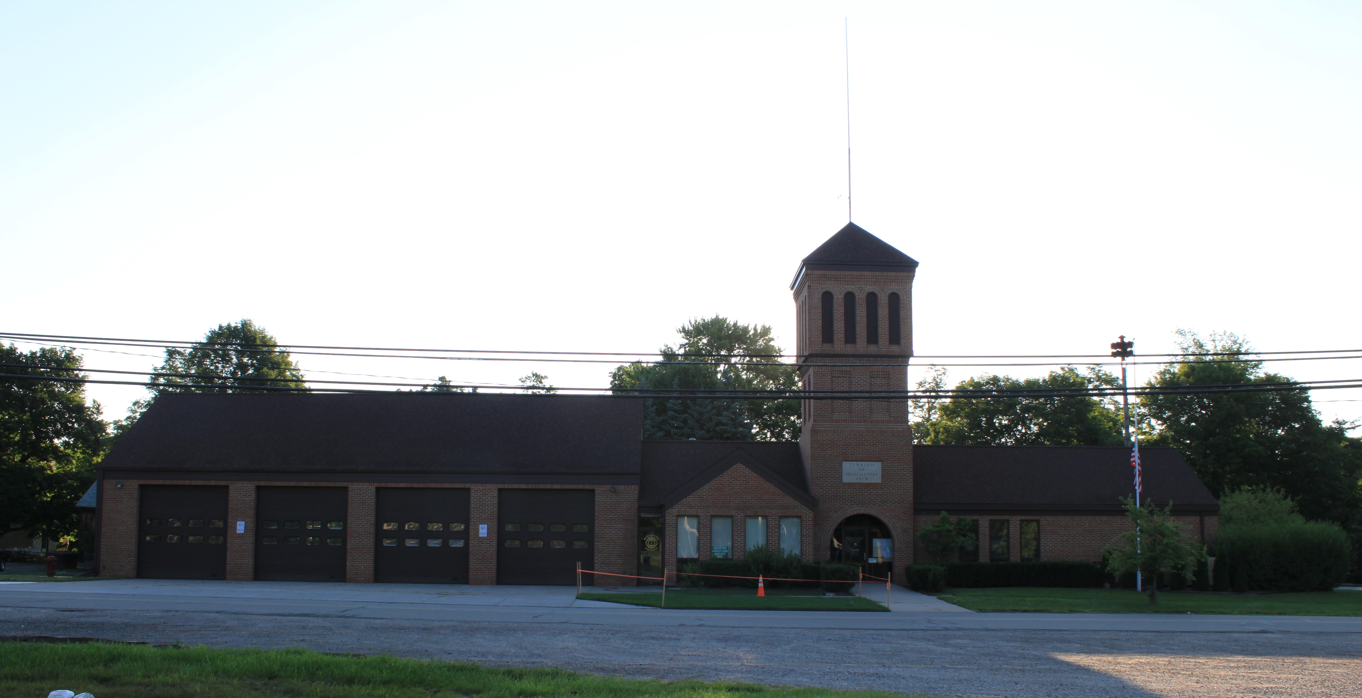 Manchester Township Michigan Township Hall 275 South Main Street, Manchester